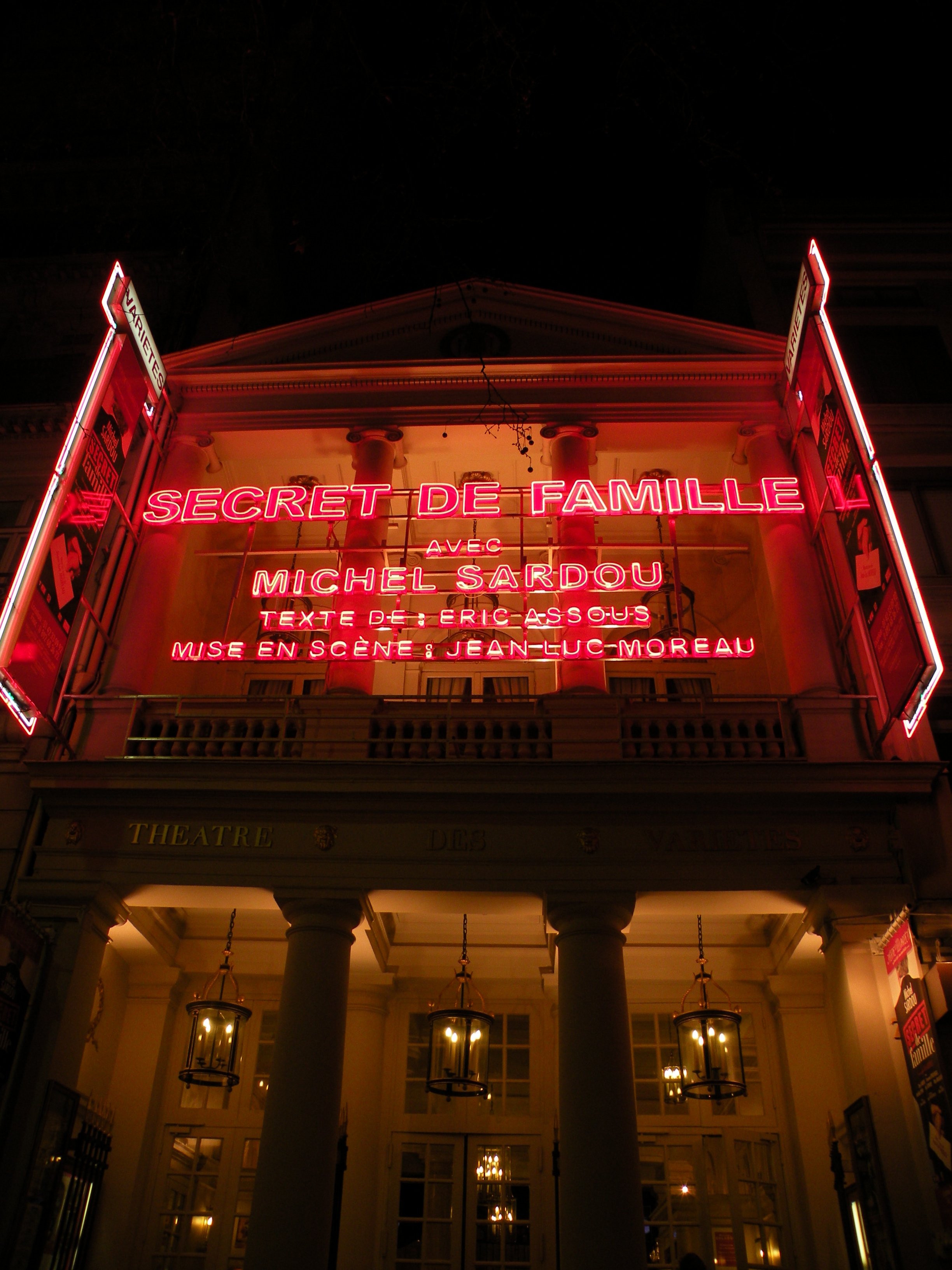 The Théâtre des Variétés in Paris by night in 2009